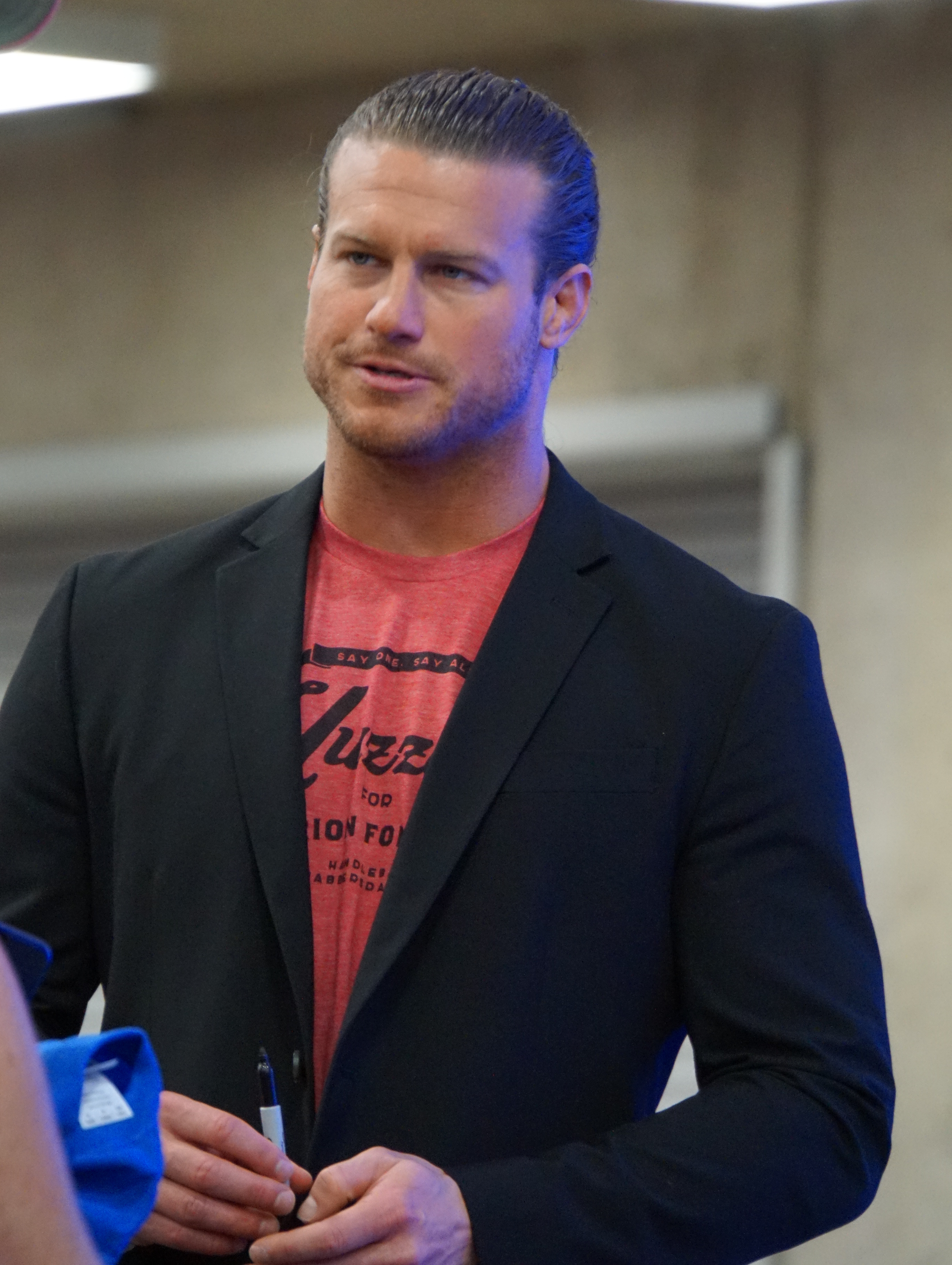 Image of professional Dolph Ziggler taken in April 2, 2016.